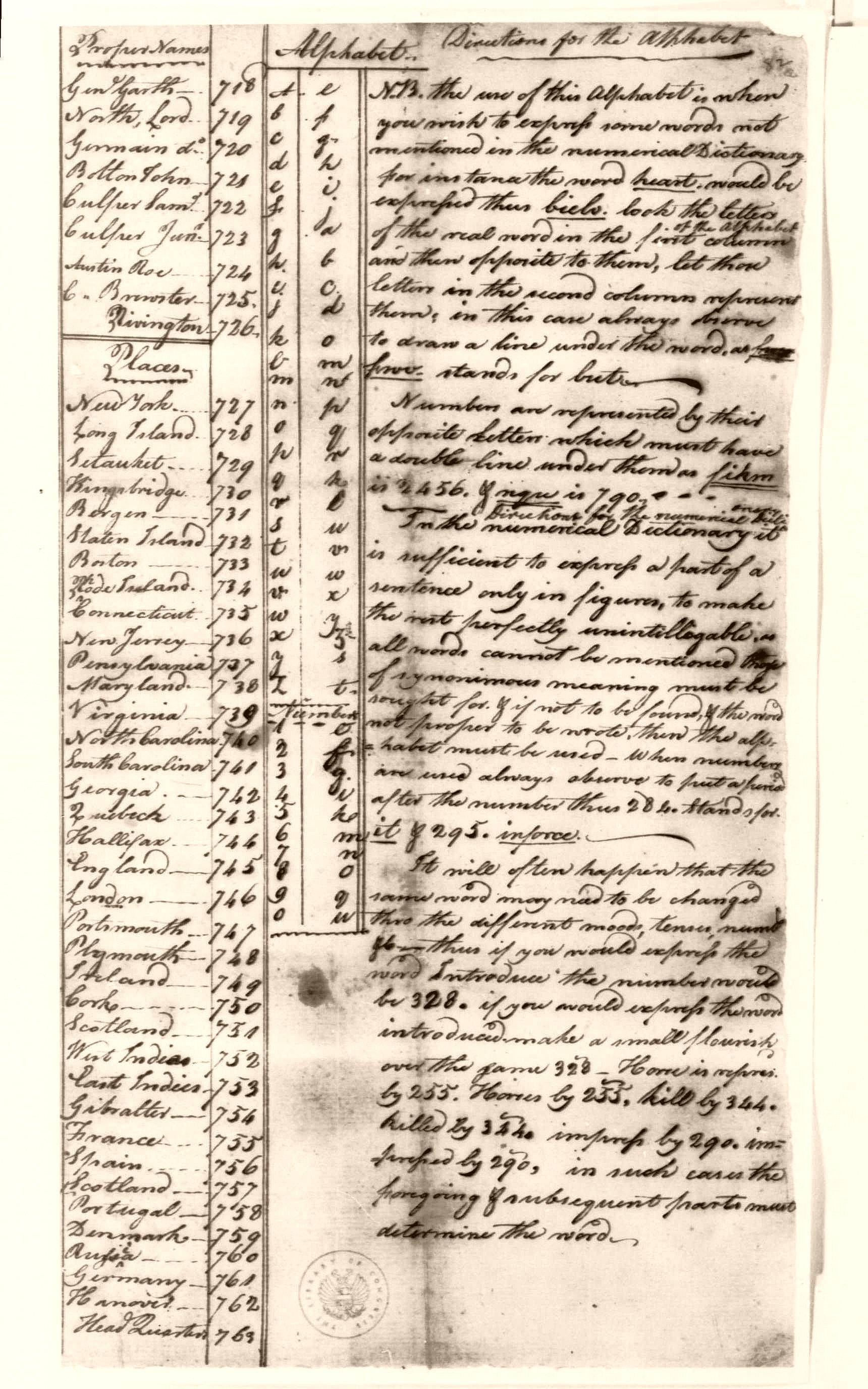 Code list of names written in code i.e.A given number was assigned to each name